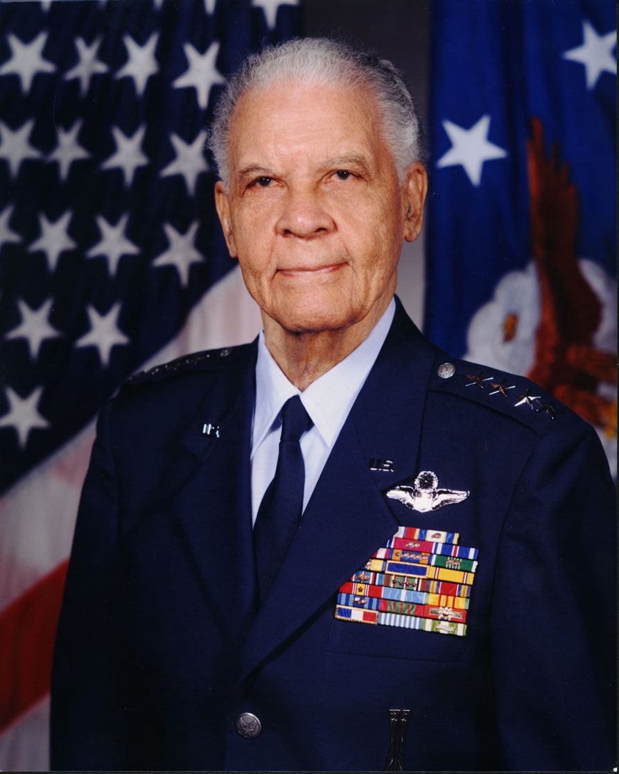 General Benjamin O. Davis, Jr. after his promotion to General.